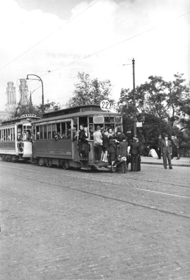 Tramway "22" with St. Florian church in the back, Warsaw 1943-1944.